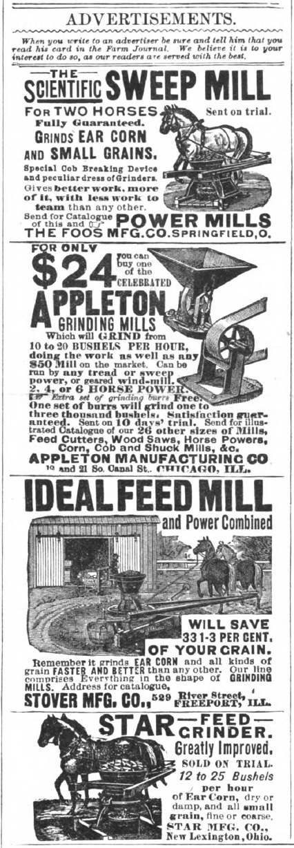 Advertisements in a farming journal (Farm Journal, 1893) for horse powers (tread powers and sweep powers) and for various mills (feed/fodder cutters and grain grinders) that were driven with them.